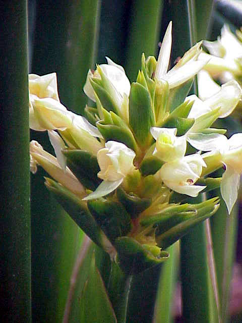 Species: Calathea princeps Family: Maranthaceae Image No. 2